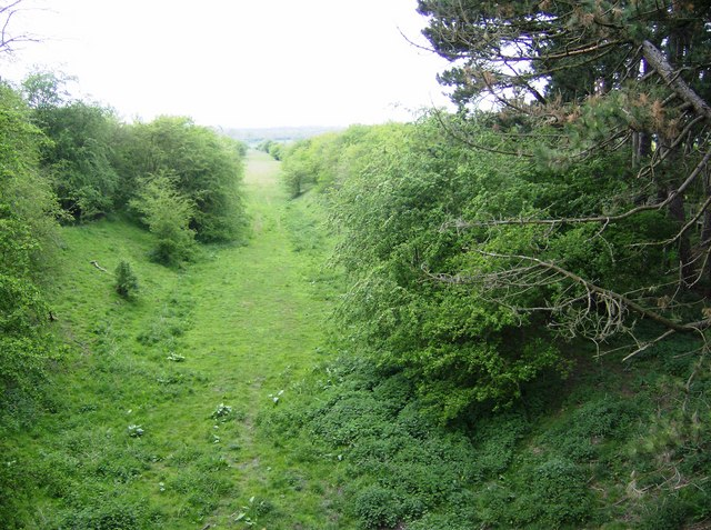 Former Great Central Main Line: view north-west toward Culworth Junction from a bridge west of Moreton Pinkney that carries a minor road and the Macmillan Way long distance footpath